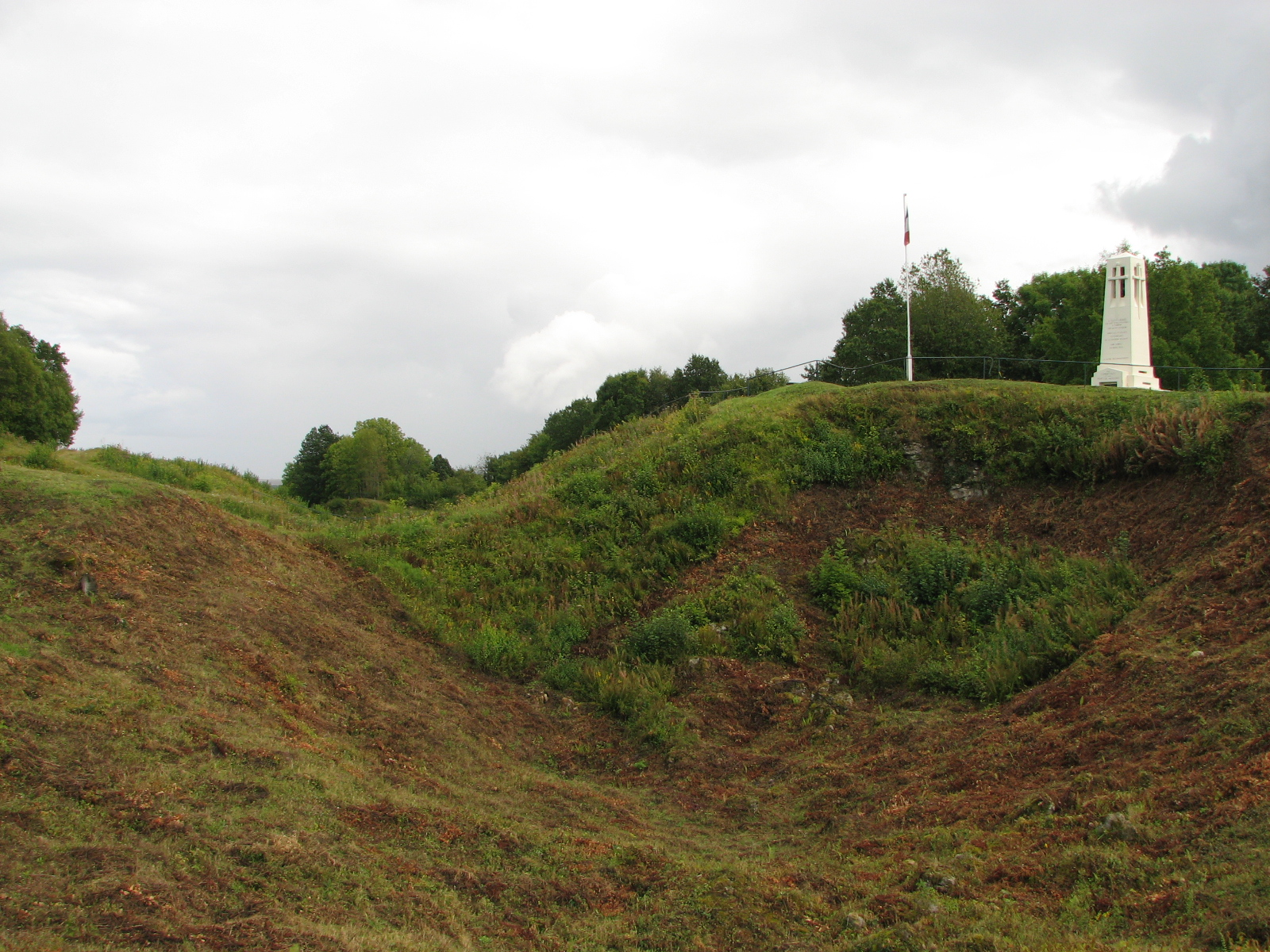 Top of the hill of Vauquois in Meuse departement, cut by craters of the underground war of the battle of Vauquois during the WWI.In the background, the French memorial